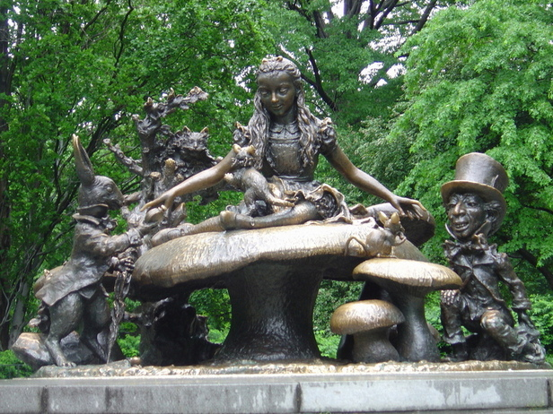 alice in wonderland sculpture in central park